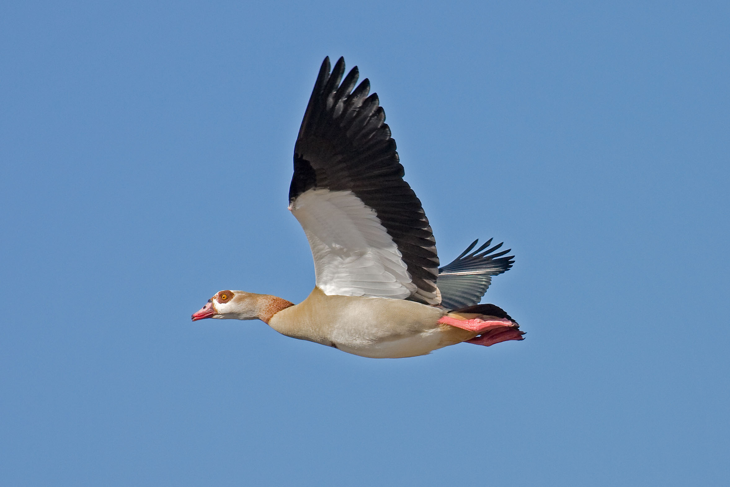 Egyptian Goose